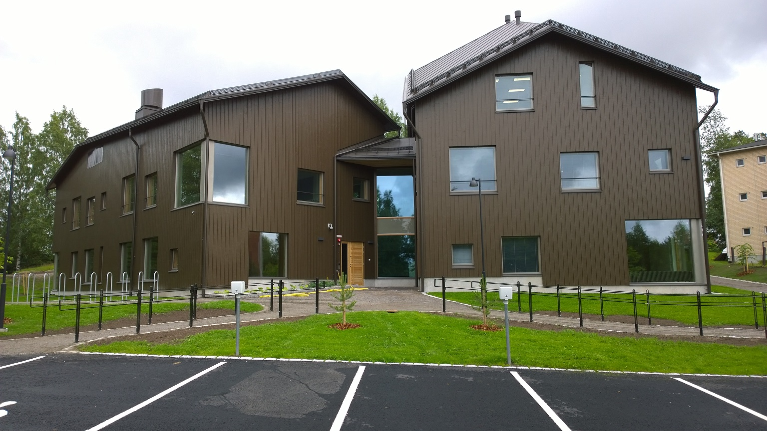 Building of Jyvälä Adult Education Center in Jyväskylä